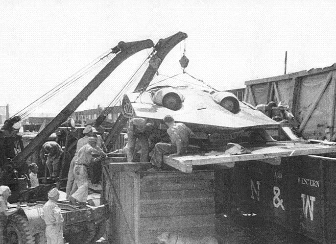 Unloading of the captured Horten Ho 229 V3 from a train by US military